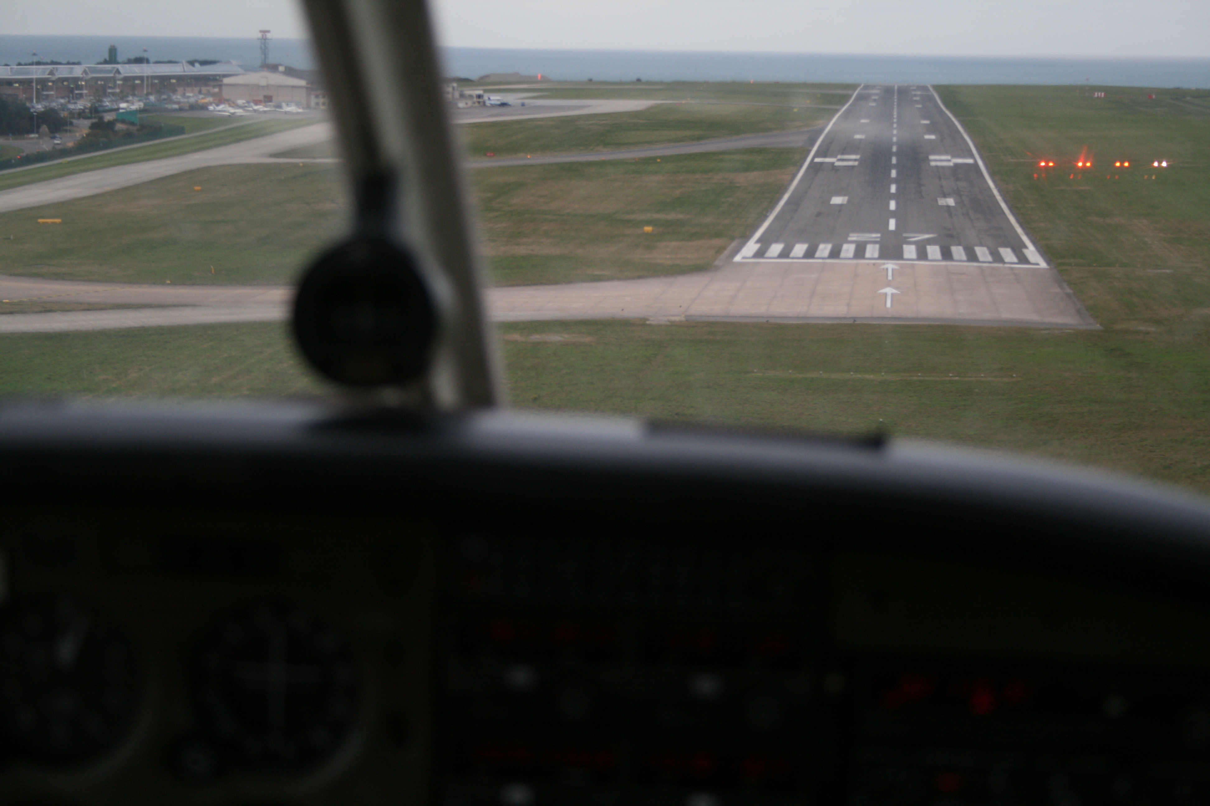 Aerial view of Jersey airport runway from final approach in PA-28 G-BPDT